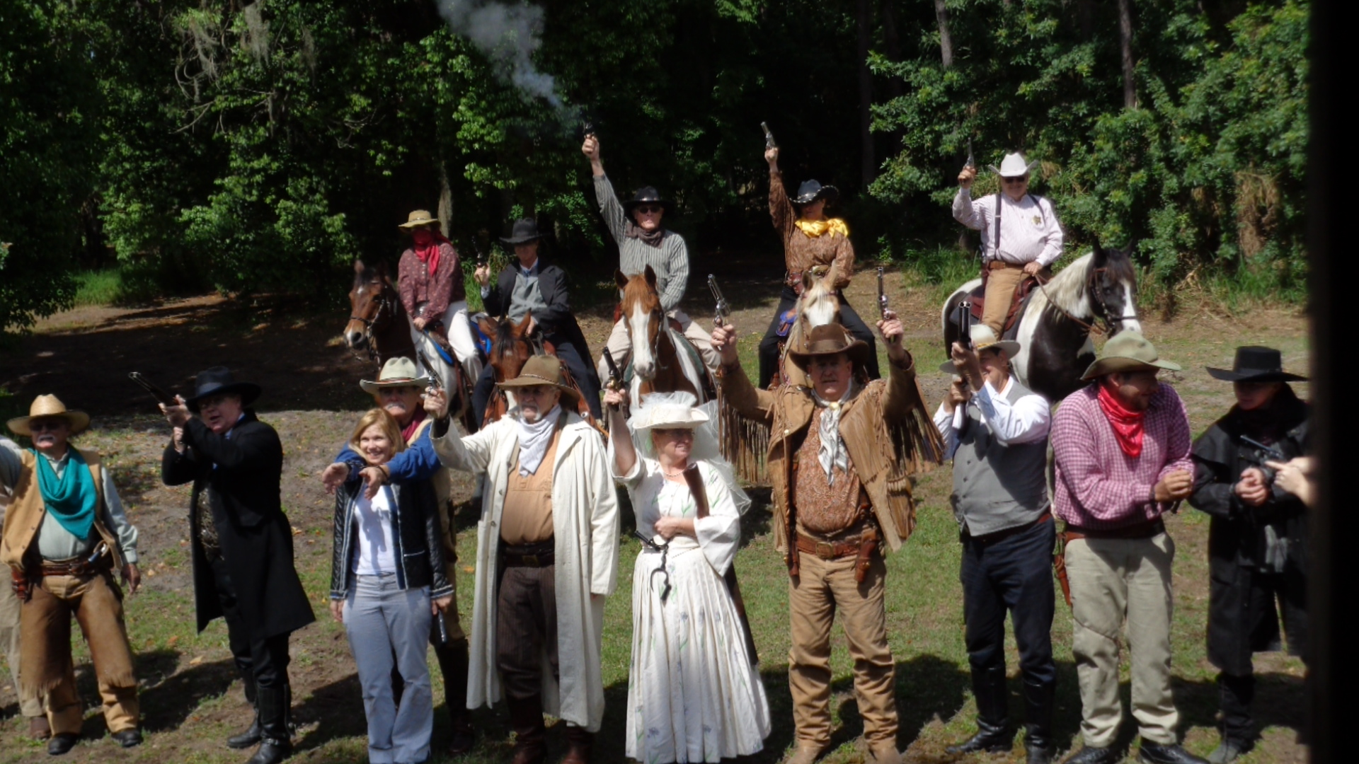 Trains of the Wild West special excursion on the Tavares, Eustis & Gulf Railroad in Tavares, Florida.